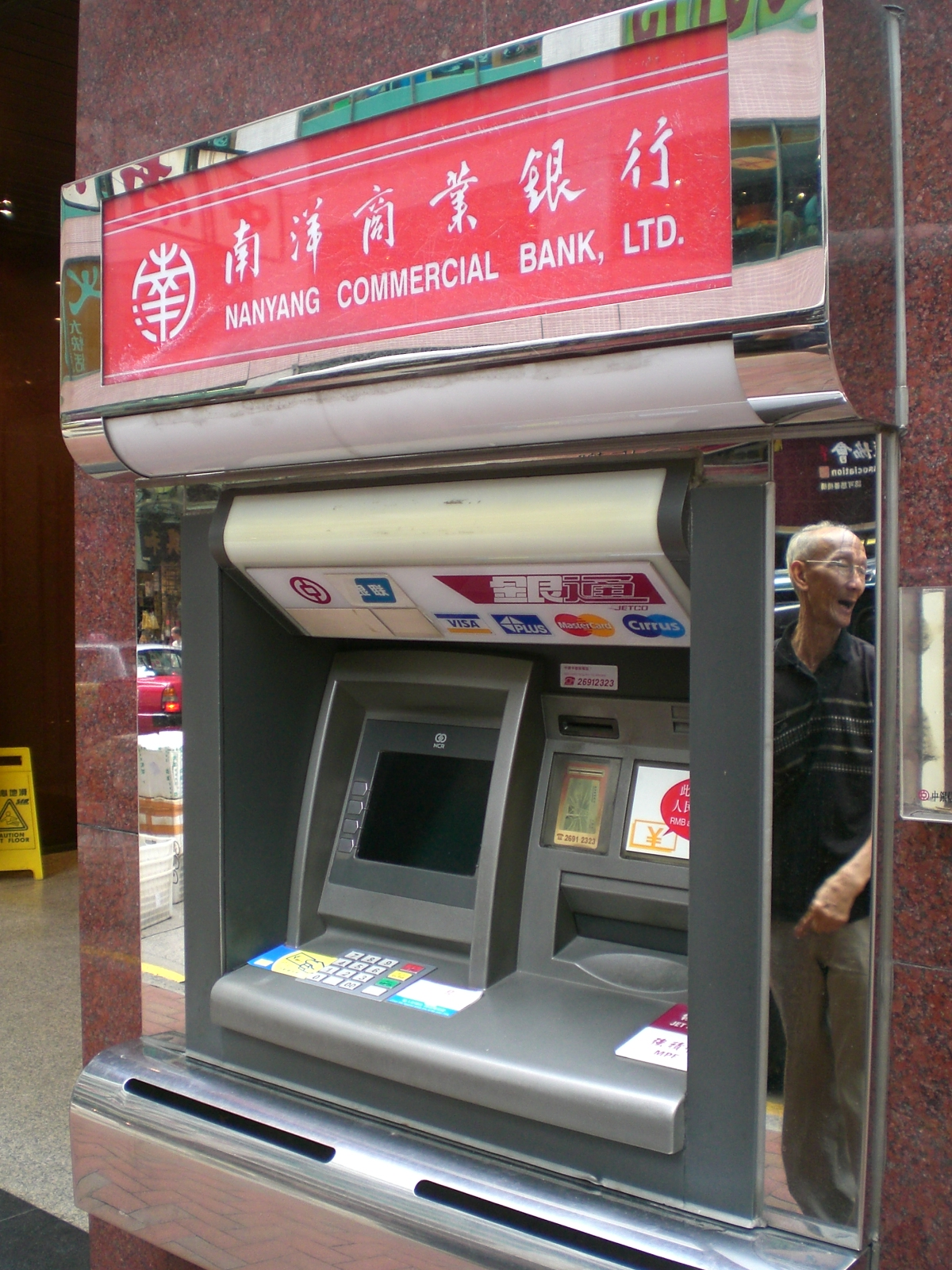 南洋商業銀行, Nanyang Commercial Bank is one of the Bank of China (Hong Kong) members.